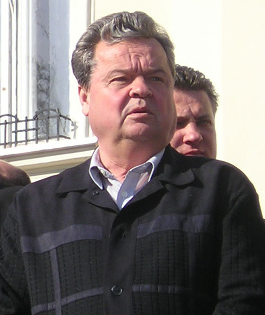 Ivan Plyushch, Ukrainian politician, former Head of Verkhovna Rada of Ukraine